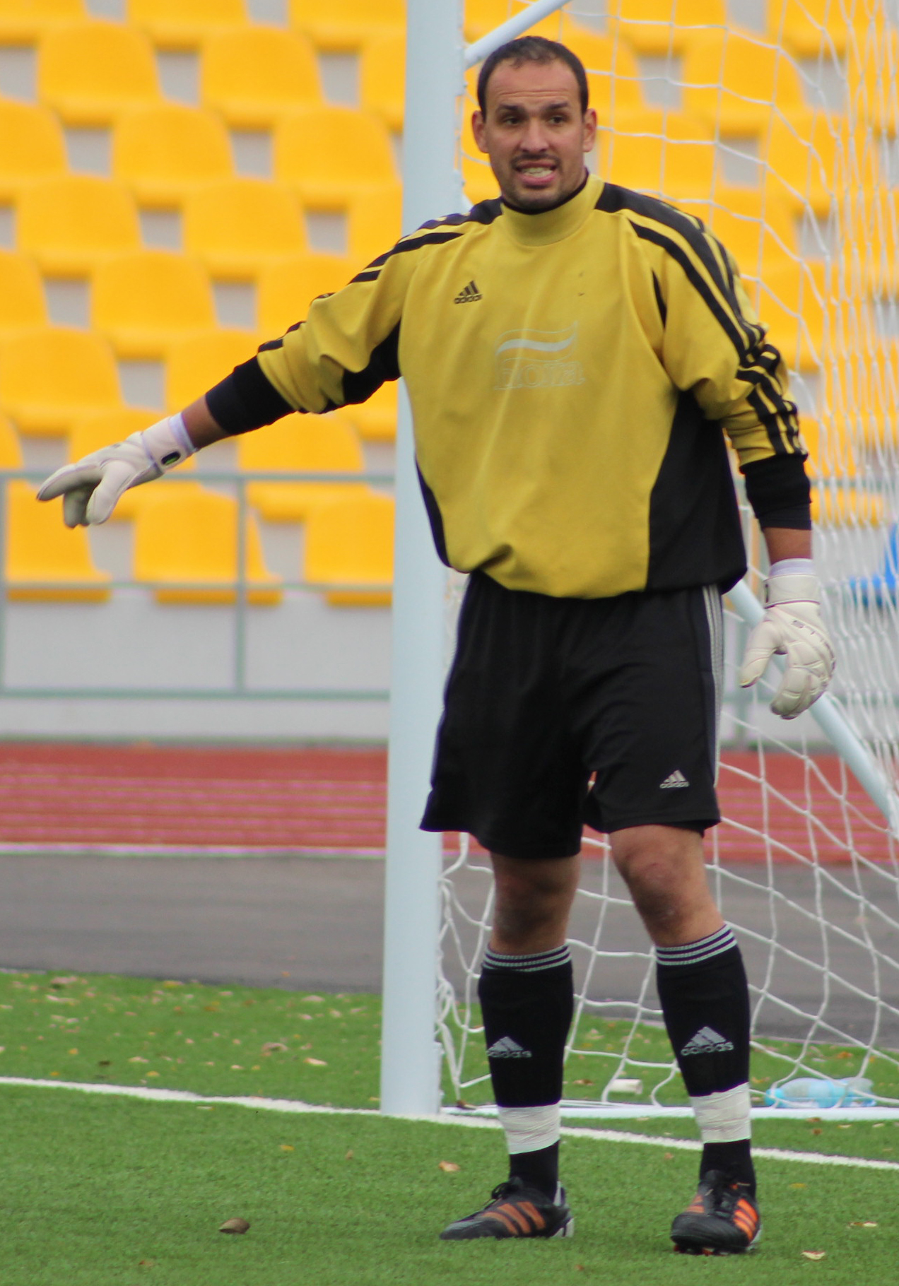 Igor Chopko